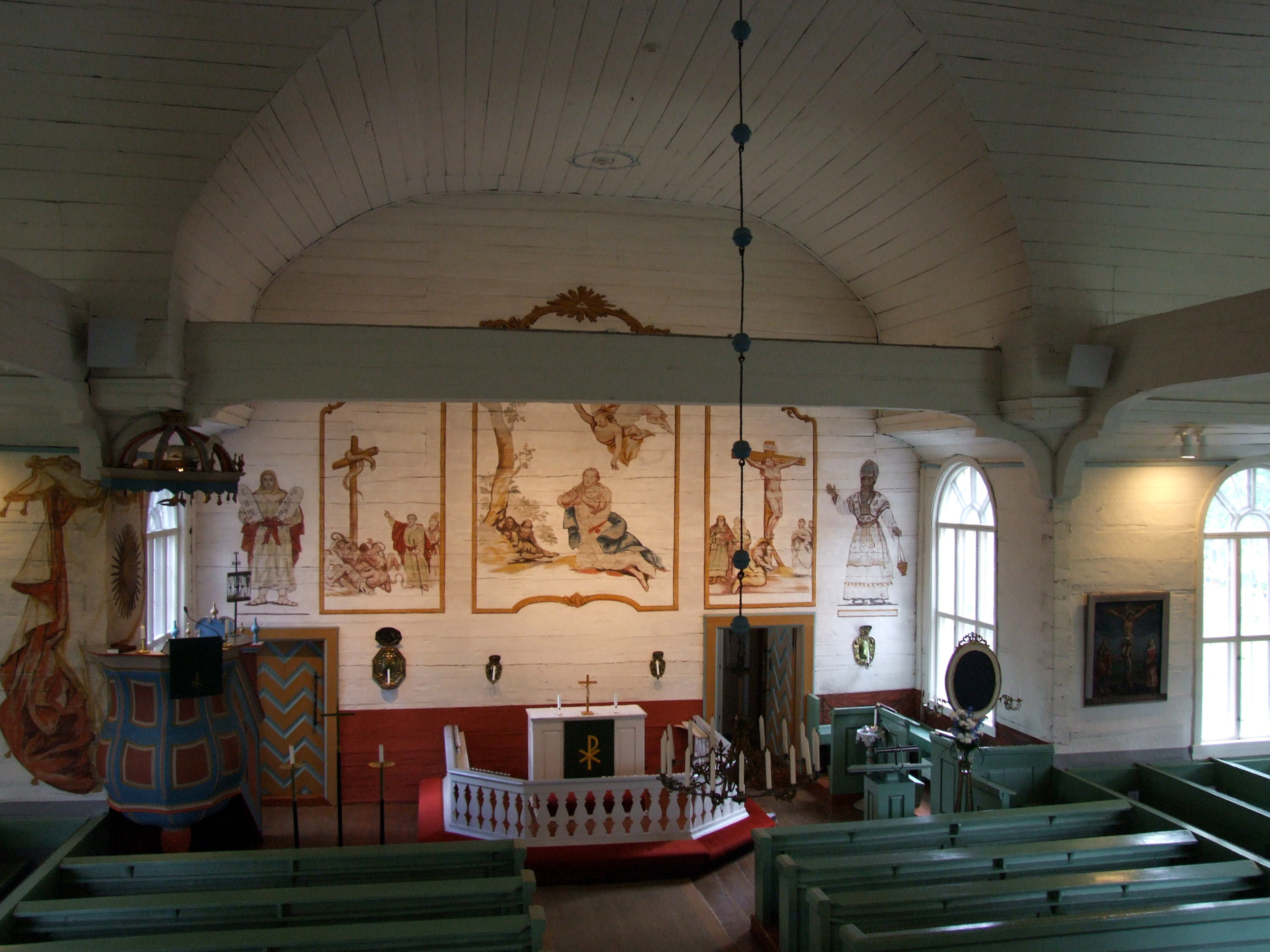 Kiiminki Church interior